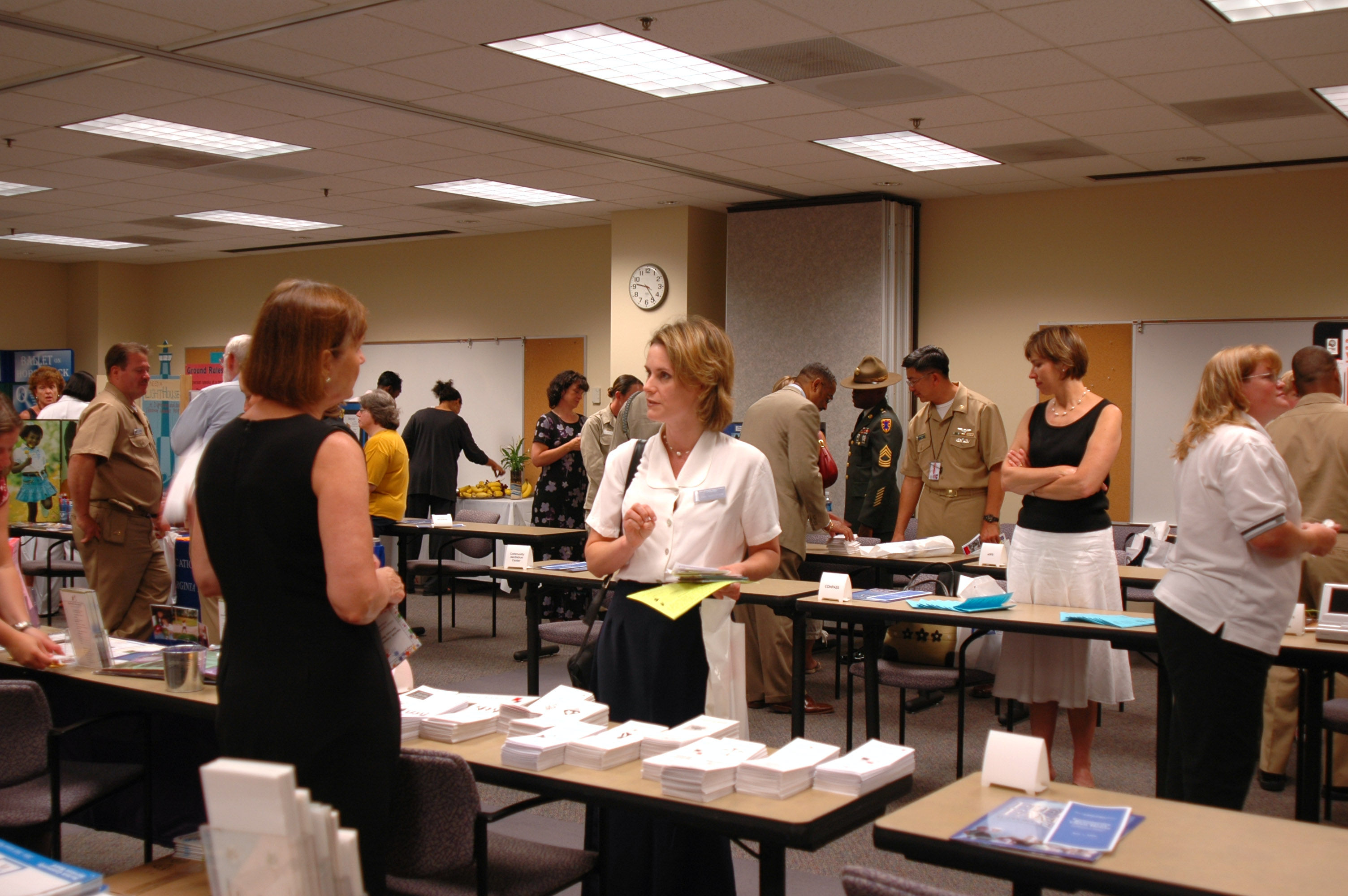 Norfolk, Va. (June 1, 2006) - Kathleen Thompson, an information referral specialist for the Hampton Roads Fleet and Family Service Center (FFSC) receives information from one of 28 civilian and military organizations during FFSC's Resource Fair in Norfolk. The fair is designed to help Sailors and their families find different forms of support available for them; including, American Red Cross, parenting and pre-deployment services. U.S. Navy photo by Lithographer Seaman Apprentice Shanika Futrell (RELEASED)